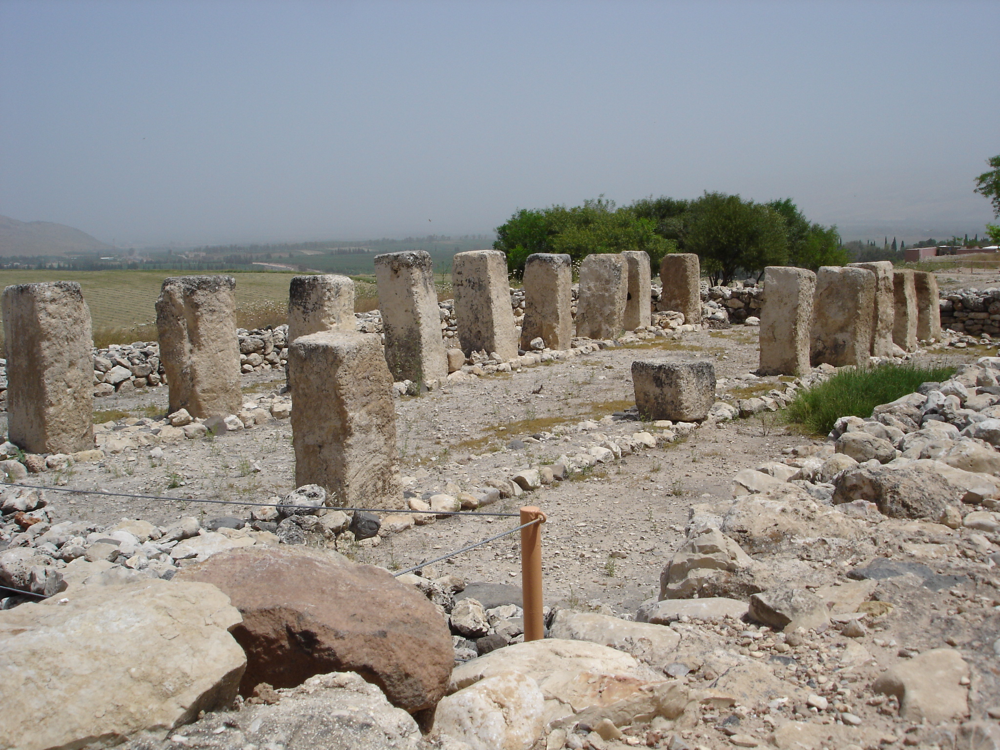 House of Pillars in Hatzor, Israel